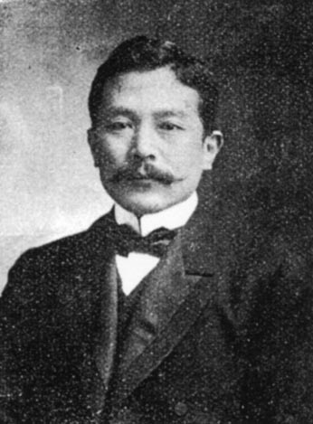 Mr. Naojirō Murakami, director and professor of the Tokyo School of Foreign Languages, and compiler of the Institute of Historical Compilation.